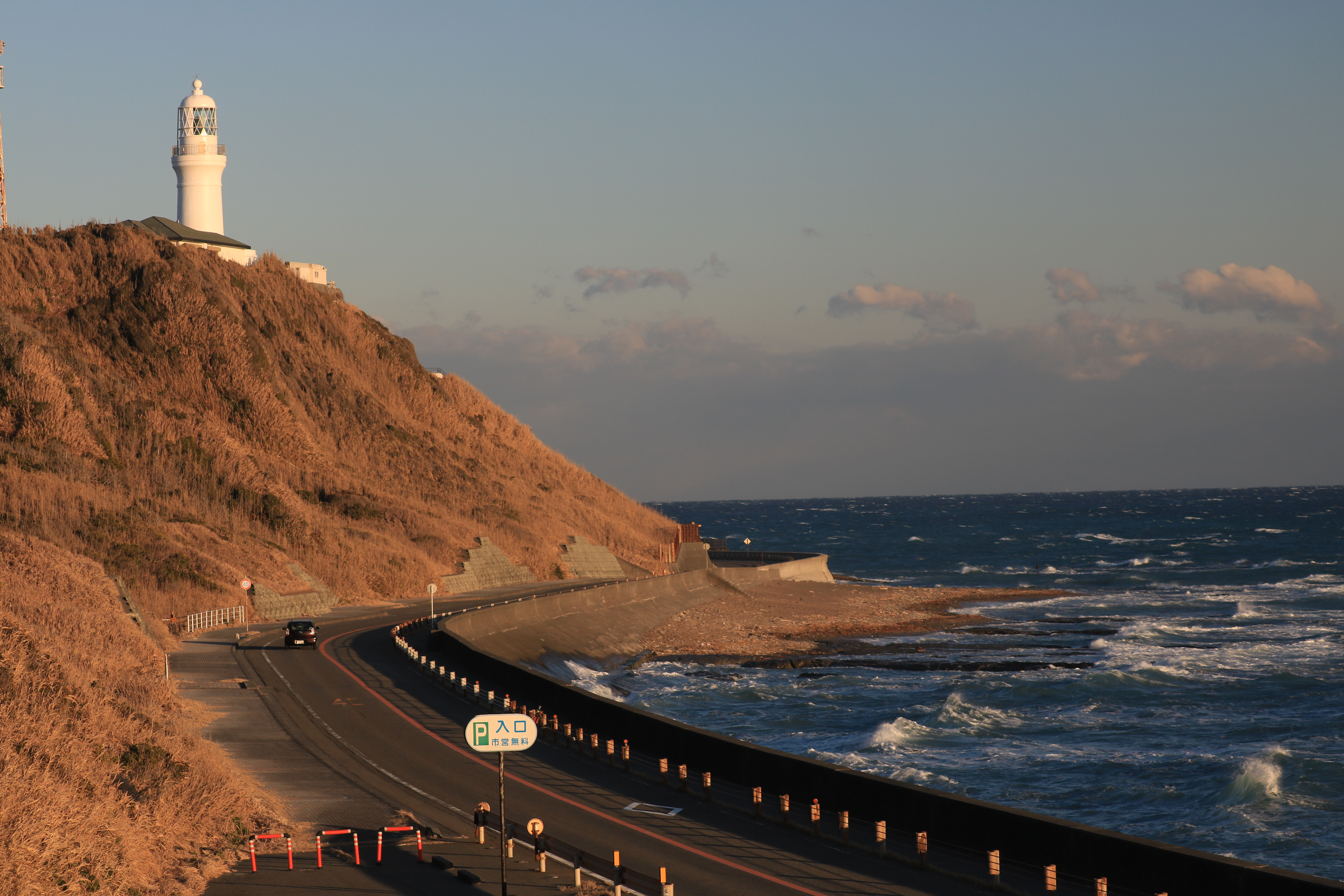 Omaezaki Lighthouse and Shizuoka Prefectural Road Route 357 in Omaezaki, Shizuoka Prefecture, Japan.